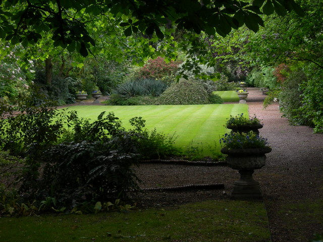 Private Garden, Brompton Square, SW3. This garden is for the use of residents only -- the houses and flats around the square will have either very small gardens, or none at all. There are locked gates at various points on the square for access. Here is a link to a picture of the houses 445784